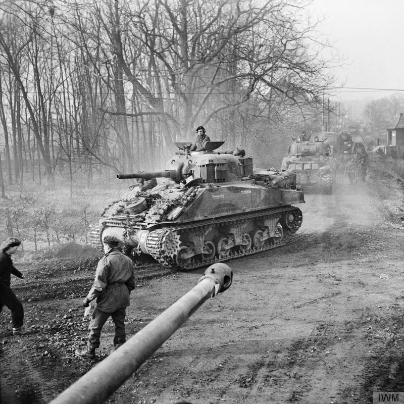 Sherman tanks of 4/7th Dragoon Guards, 8th Armoured Brigade move up to support the attack on Goch, Germany, 17 February 1945. Shermans of 4/7th Dragoon Guards, 8th Armoured Brigade move up to support the attack on Goch, 17 February 1945.